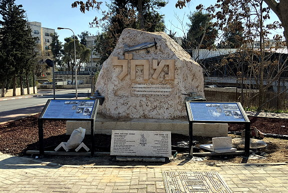 Memorial to Machal - Foreign Volunteers who served in Israel's War of Independence